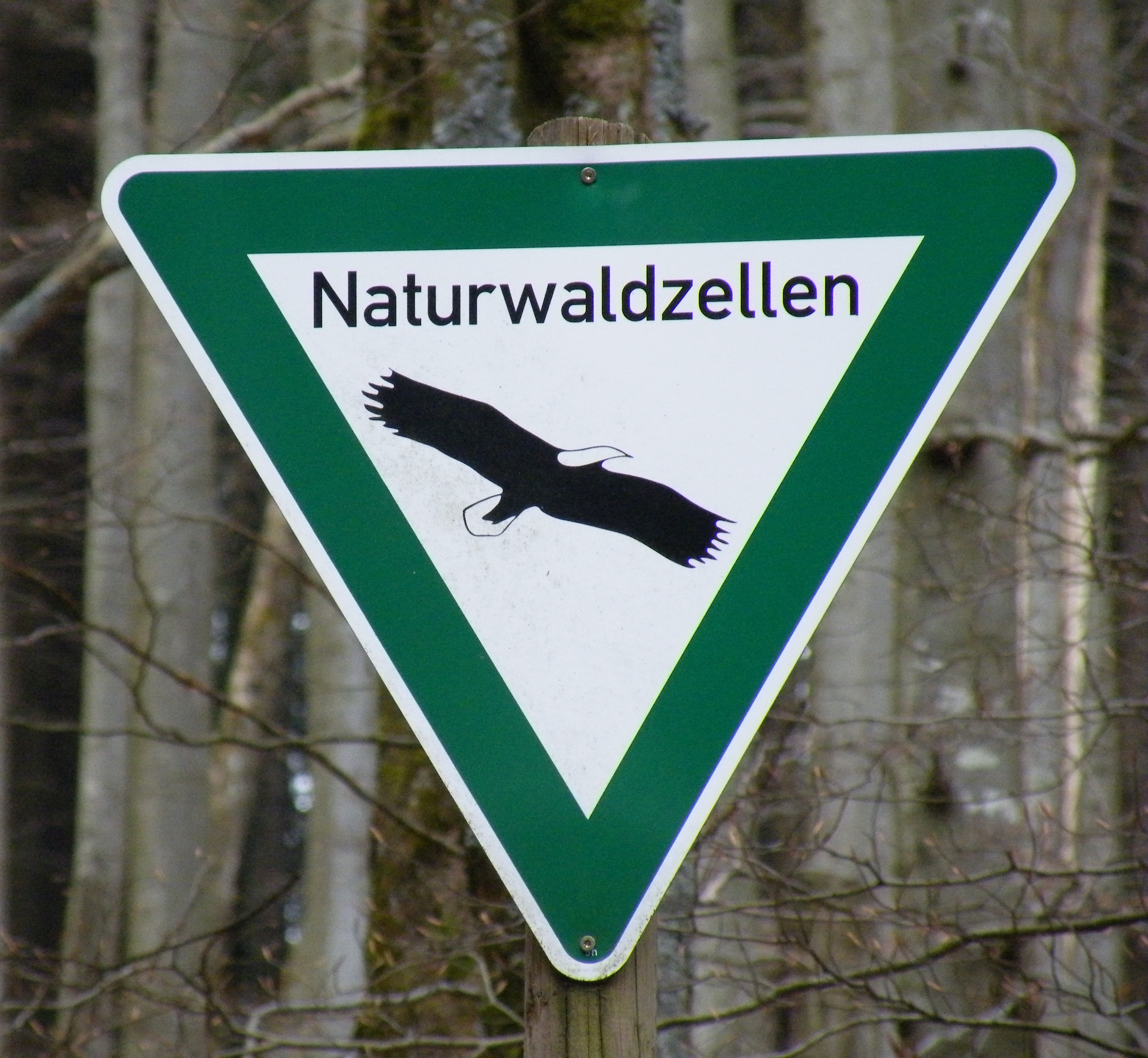 Schild „Naturwaldzellen“, Naturwaldzelle „Hunau“ (NWZ 41) im Naturschutzgebiet „Hunau - Langer Rücken - Heidberg“ in Schmallenberg, NRW.